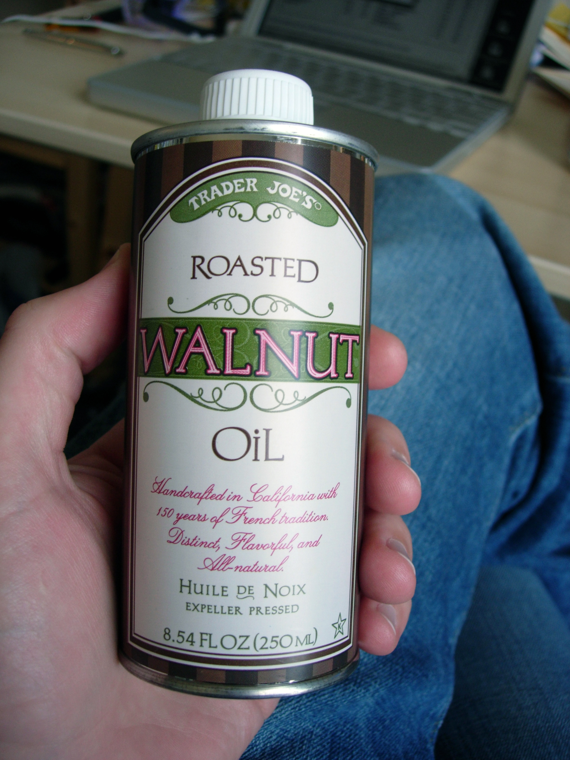 A can of Trader Joe's brand expeller-pressed roasted walnut oil, produced in California. Photo taken in the United States, with an E5200 digital camera.